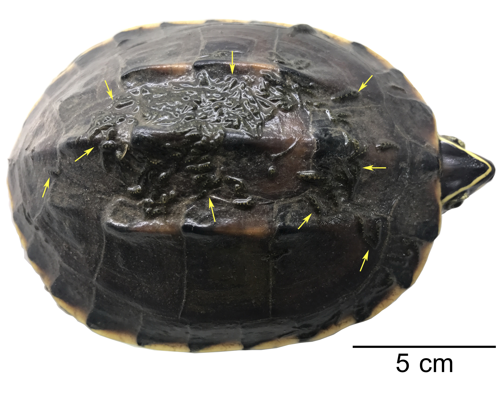 Figure 5A of paper Parasitism of Placobdelloides siamensis on (A) the carapace of Malayemys subtrijuga